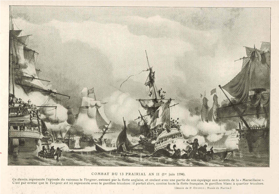 Glorious First of June: French ship Vengeur du Peuple